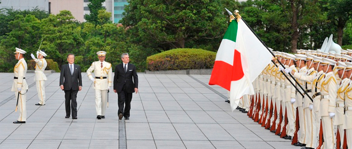 Welcoming ceremony for Giampaolo Di Paola, Italian Minister of Defense at the JMOD compound in Ichigaya, Tokyo, Japan.